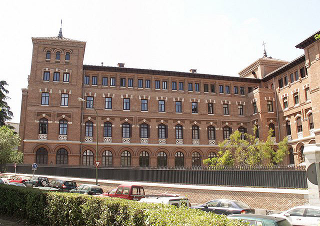 Seminario Conciliar. Seminary in Madrid (Spain). Building projected by Miguel de Olabarría Zuaxuabar and Ricardo García Guereta, and built from 1902 to 1906.